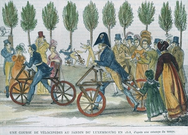 A velocipede race at Jardin du Luxembourg in 1818 after an engraving of the time, engraved by P. Comte